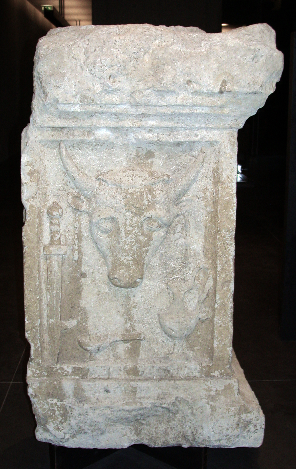 Périgueux ( Dordogne ), Vesunna-Museum, tauribolium altar, left side